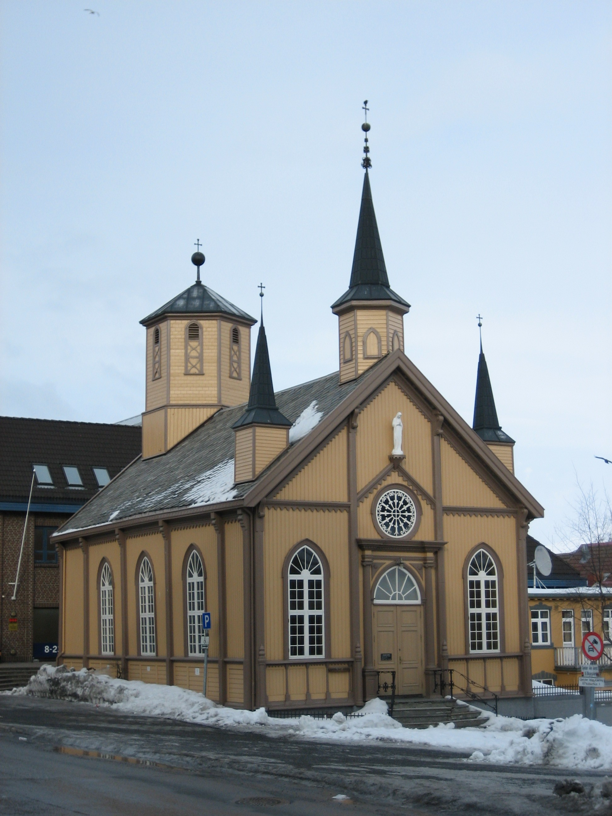 Our Lady Catholic Church in Tromsø, seat of local Catholic prelate. Pope John Paul II stayed here during his 1989 visit.